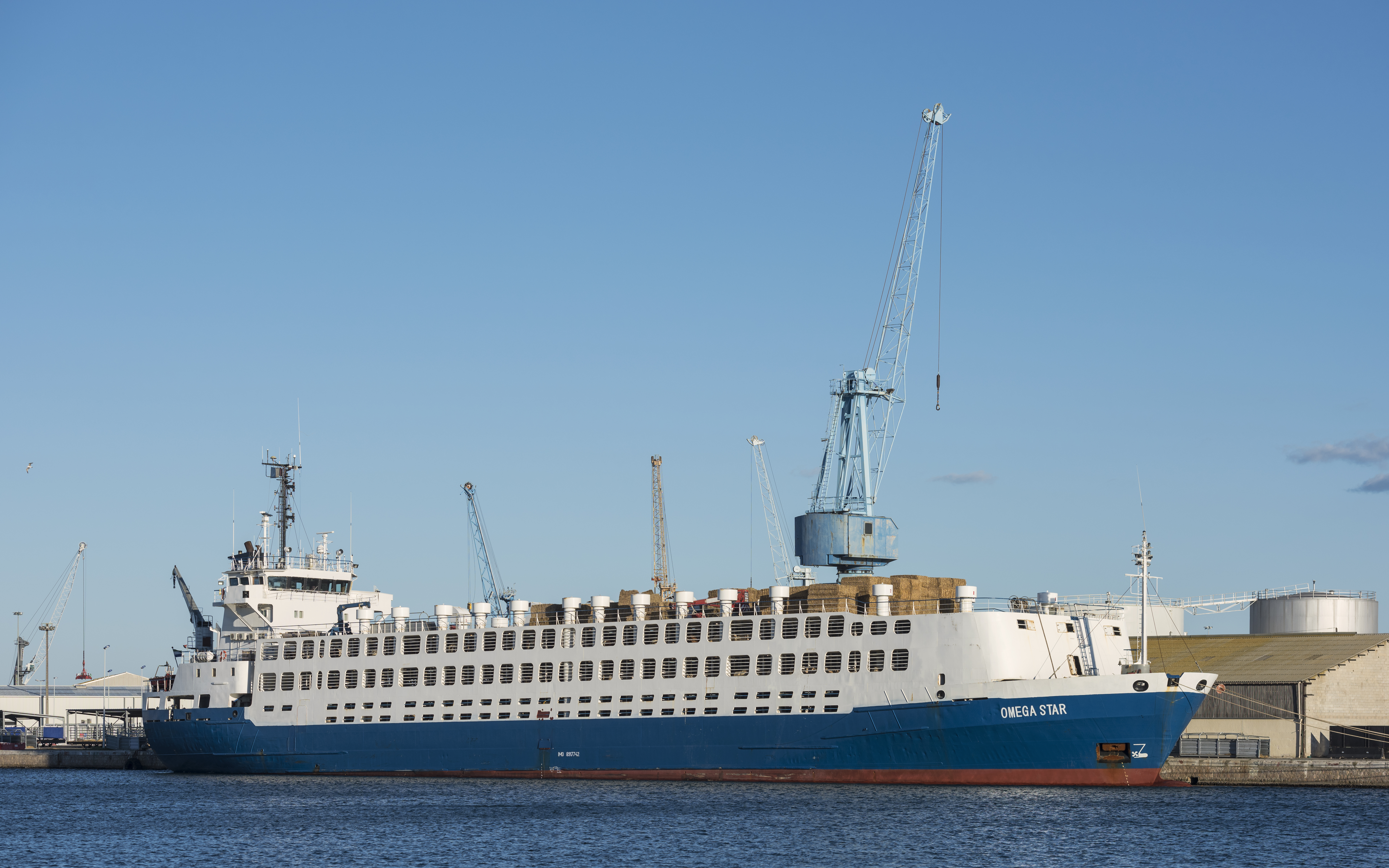 Omega Star (ship, 1991) - Sète, Hérault, France